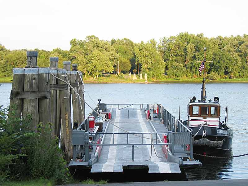 The Rocky Hill to Glastonbury (Connecticut) Ferry, the oldest continuously-run ferry in the United States, is a barge/tug combination ferry at this time.